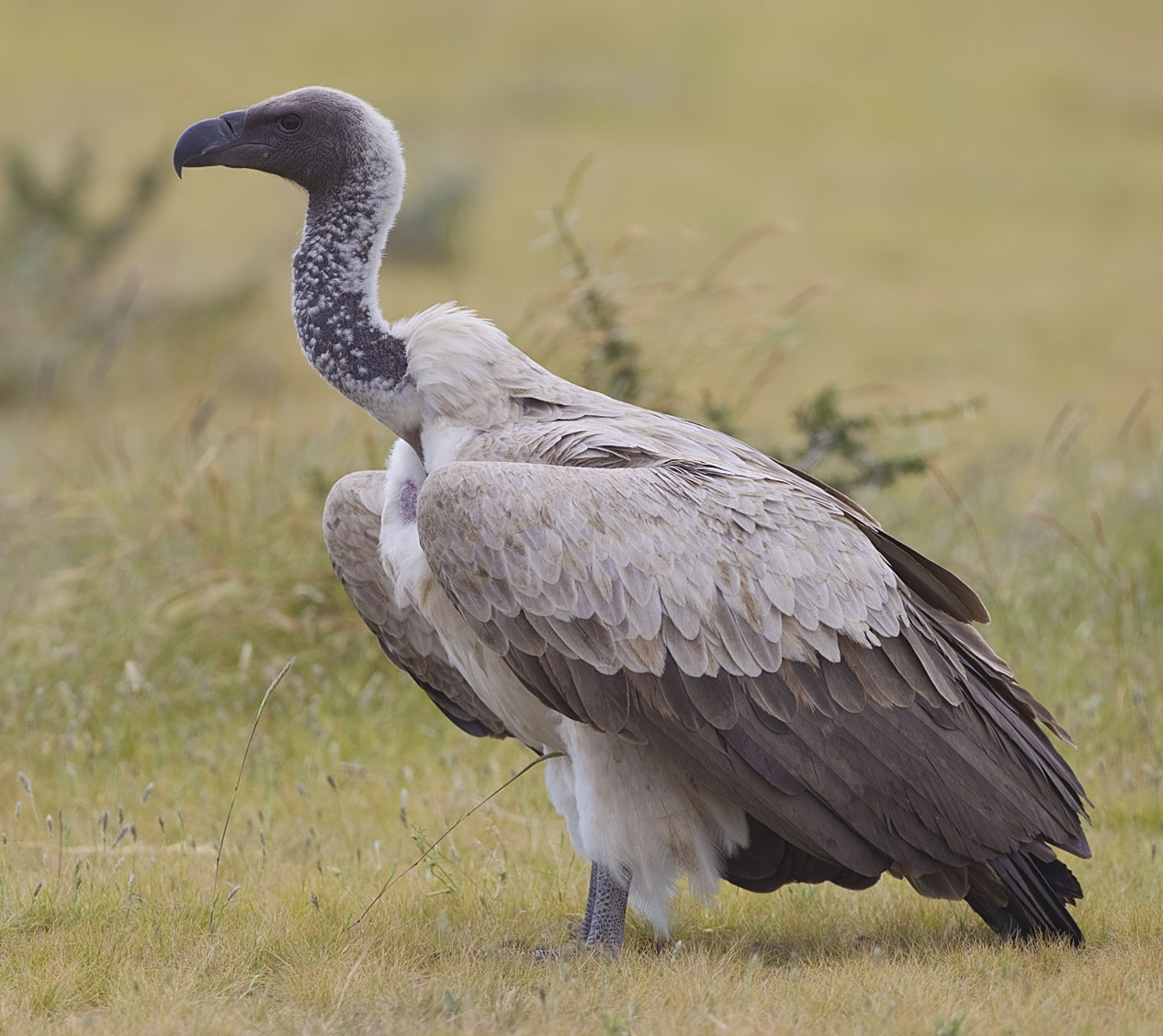 White-backed Vulture Gyps africanus, Etosha National Park, Namibia